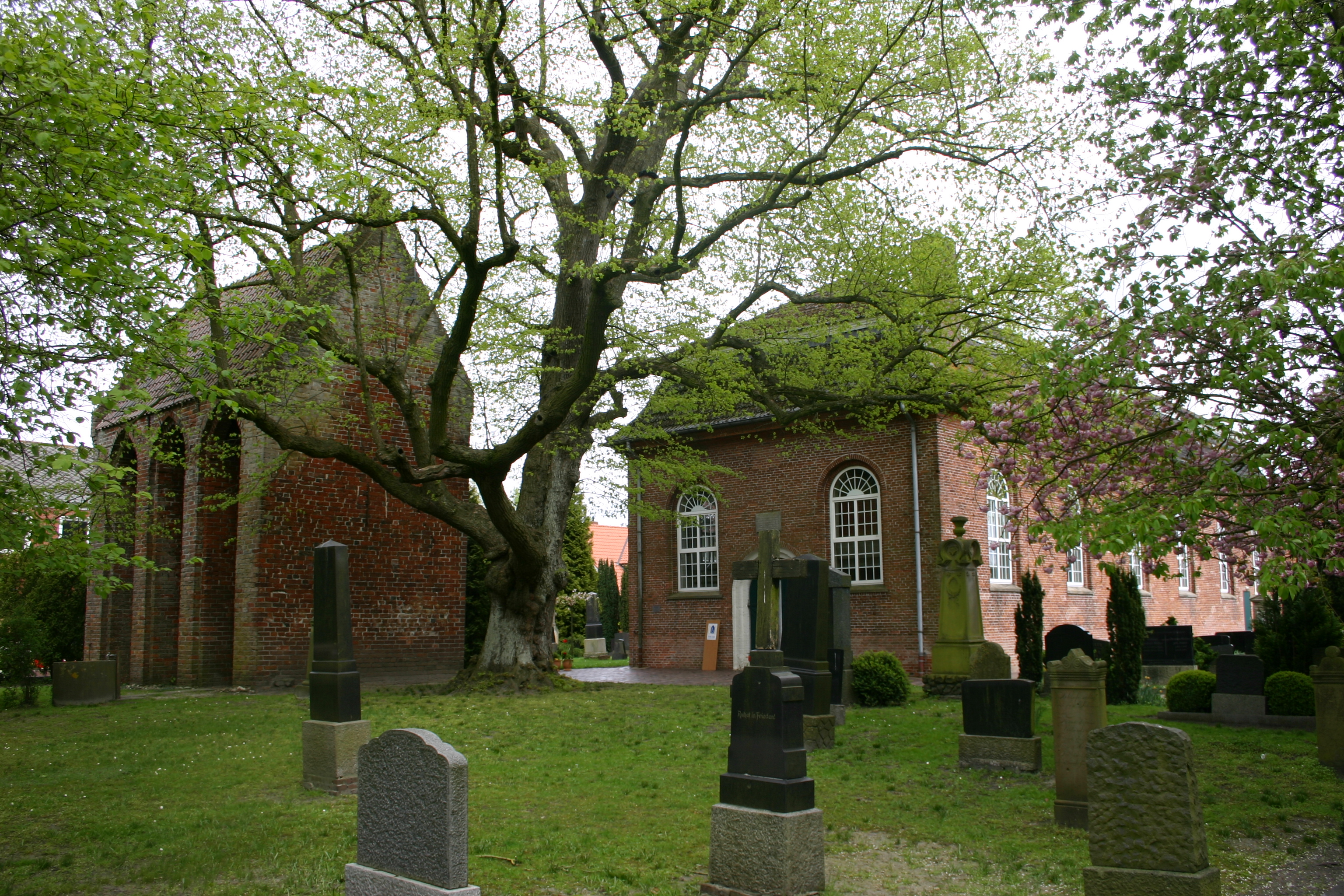 Historic Ss. Stephen's and Bartholomew's Church in Detern, district of Leer, East Frisia, Germany